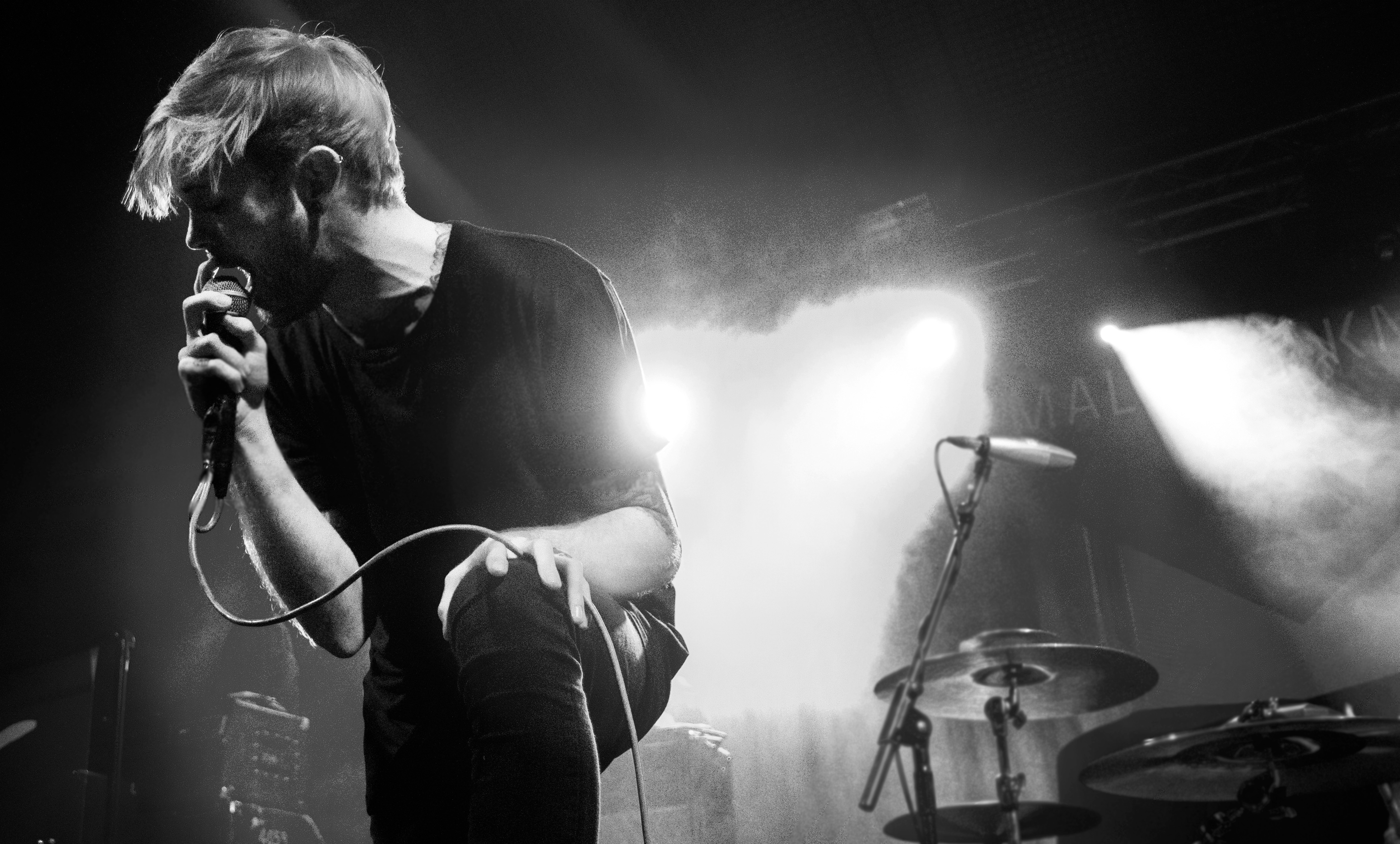 Jon Gaskin of Fort Hope performing in Club 85, North Hertfordshire in 2013. Photo by Lauren Julia Robey.